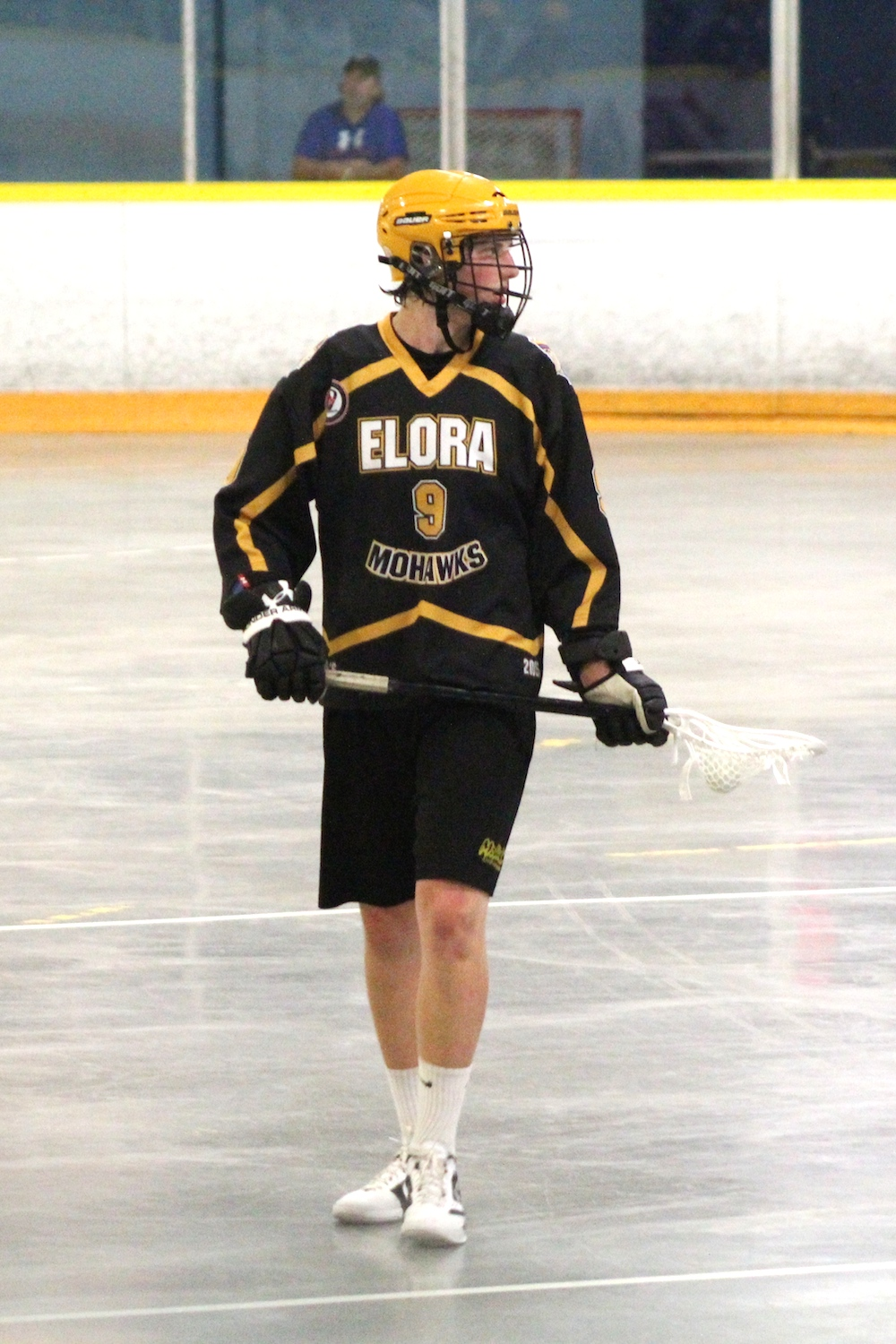 This photo was taken by Devan Mighton during the 2015 OJBLL season.